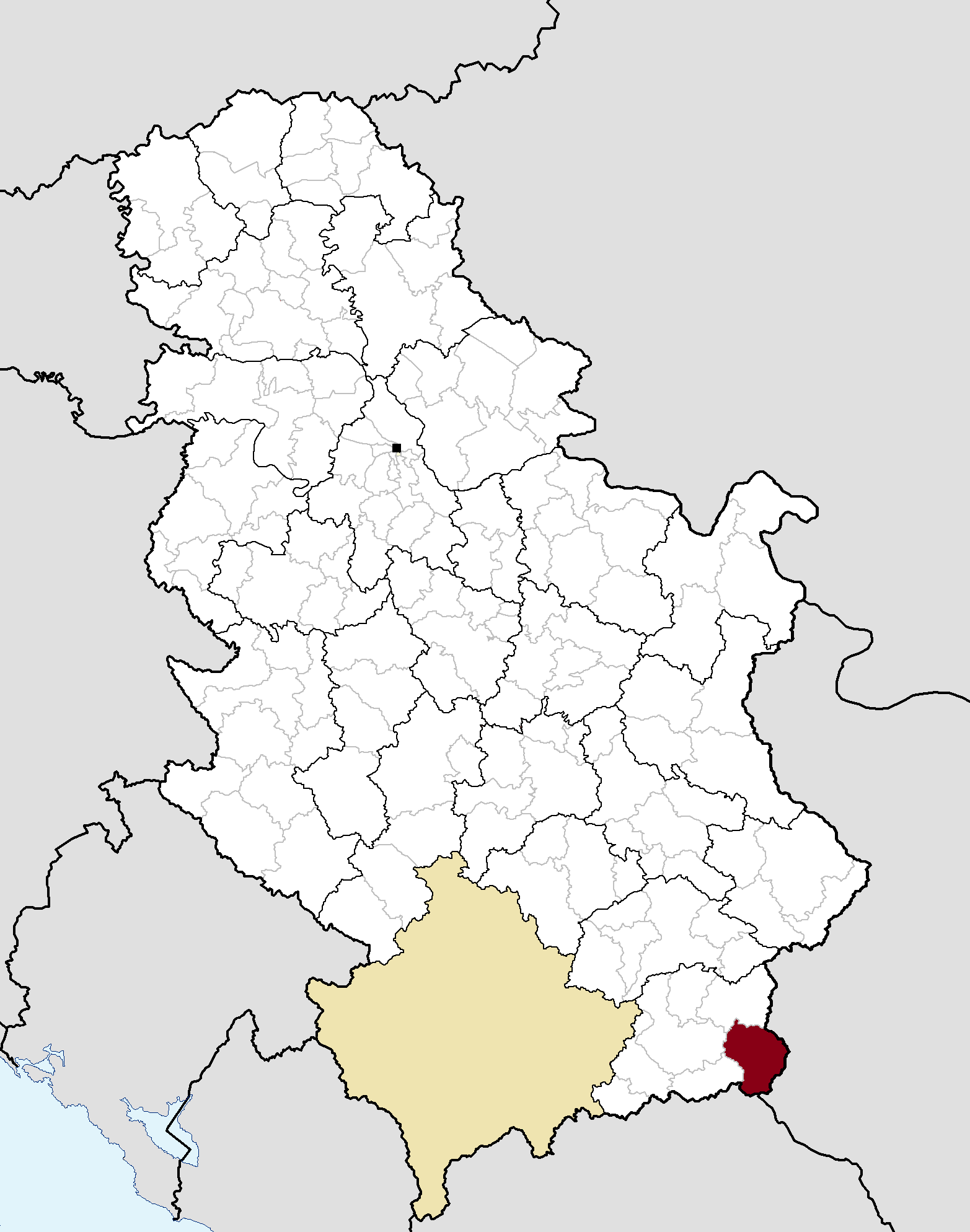 Municipal location in Serbia